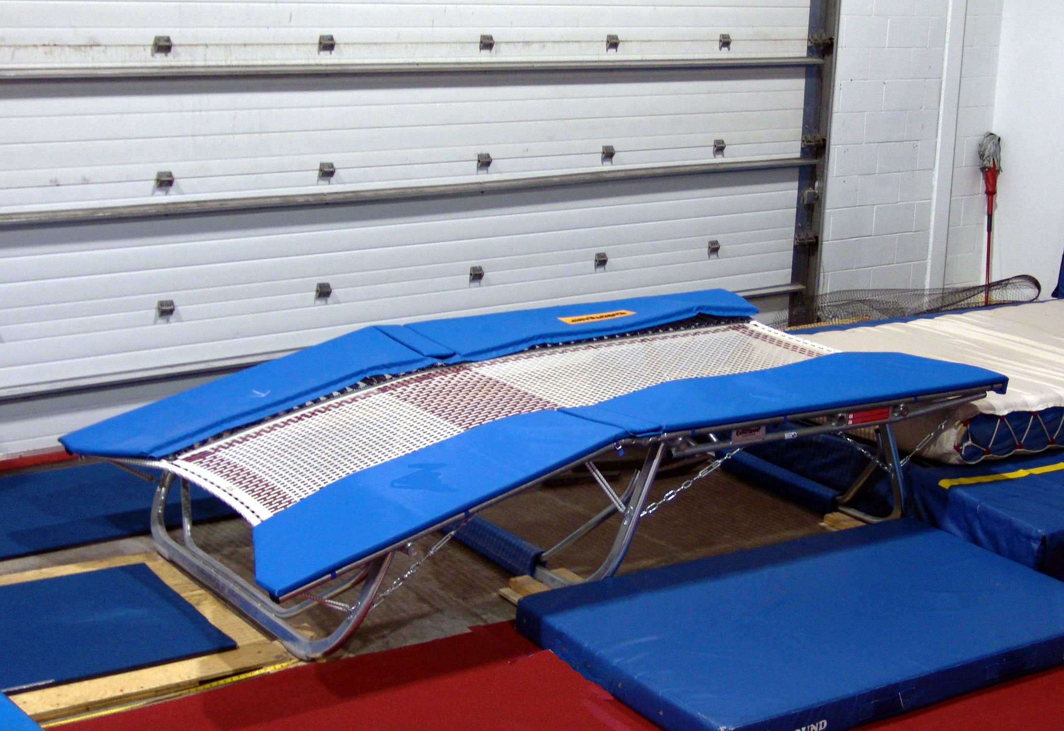 Photograph of a Double mini trampoline used for training. Original picture taken by User:Dabbler November 2006